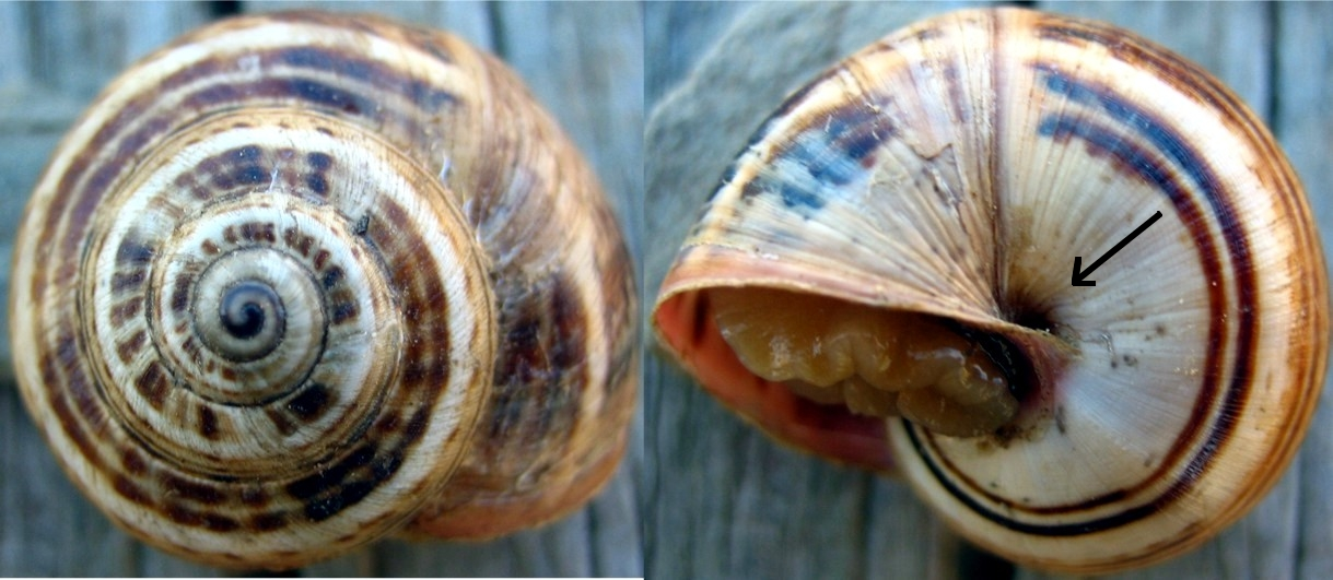 Morfology of Theba pisana. Terrassa, Barcelona, Spain; see the nearly close umbilicus